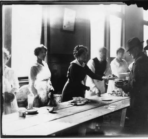 During the 1919 Seattle General Strike, various individuals and groups supported the strikers' cause by setting up soup kitchens to feed workers and their families. In this photo, a woman serves a plate of food to a striking worker.